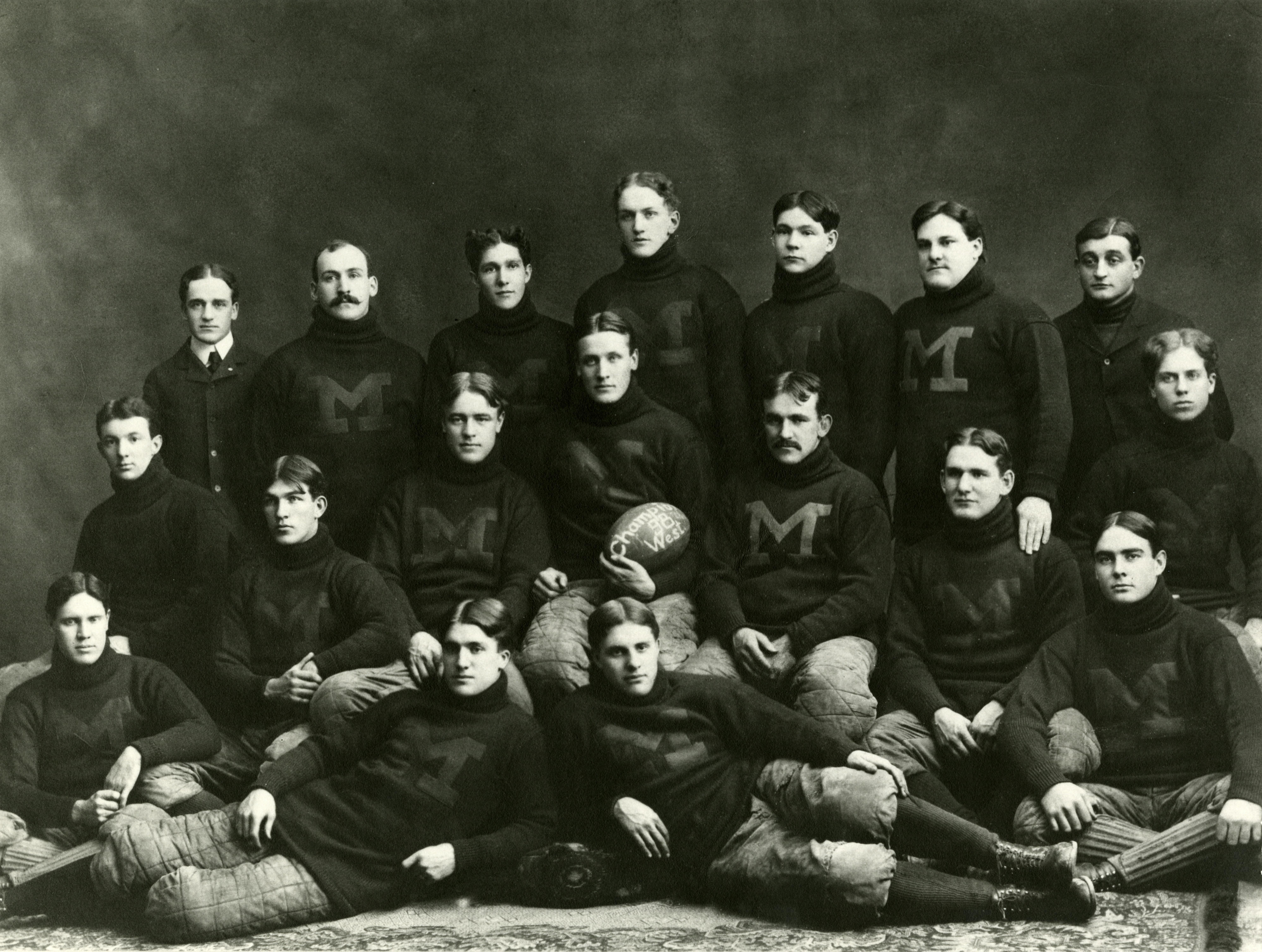 Official photograph of the 1898 Michigan Wolverines football team. The ball's legend says "Champion 98 West". Players are: (Back row): student manager Harry B. Potter, William P. Baker, John F. McLean, Neil B. Snow, W. A. Avery, William R. Cunningham, coach Gustave Ferbert; (Middle row): Charles E. Street, Clifford A. Barabee, William H. Caley, captain John W.F. Bennett, Allen Steckle, Charles H. Widman, William W. Talcott; (Front row): Charles G. McDonald, Alanson Weeks, Hugh White, Richard R. France.